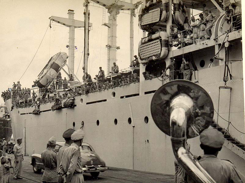 Arrival of new recruits in Nederlands-Indie (Indonesia) in 1949